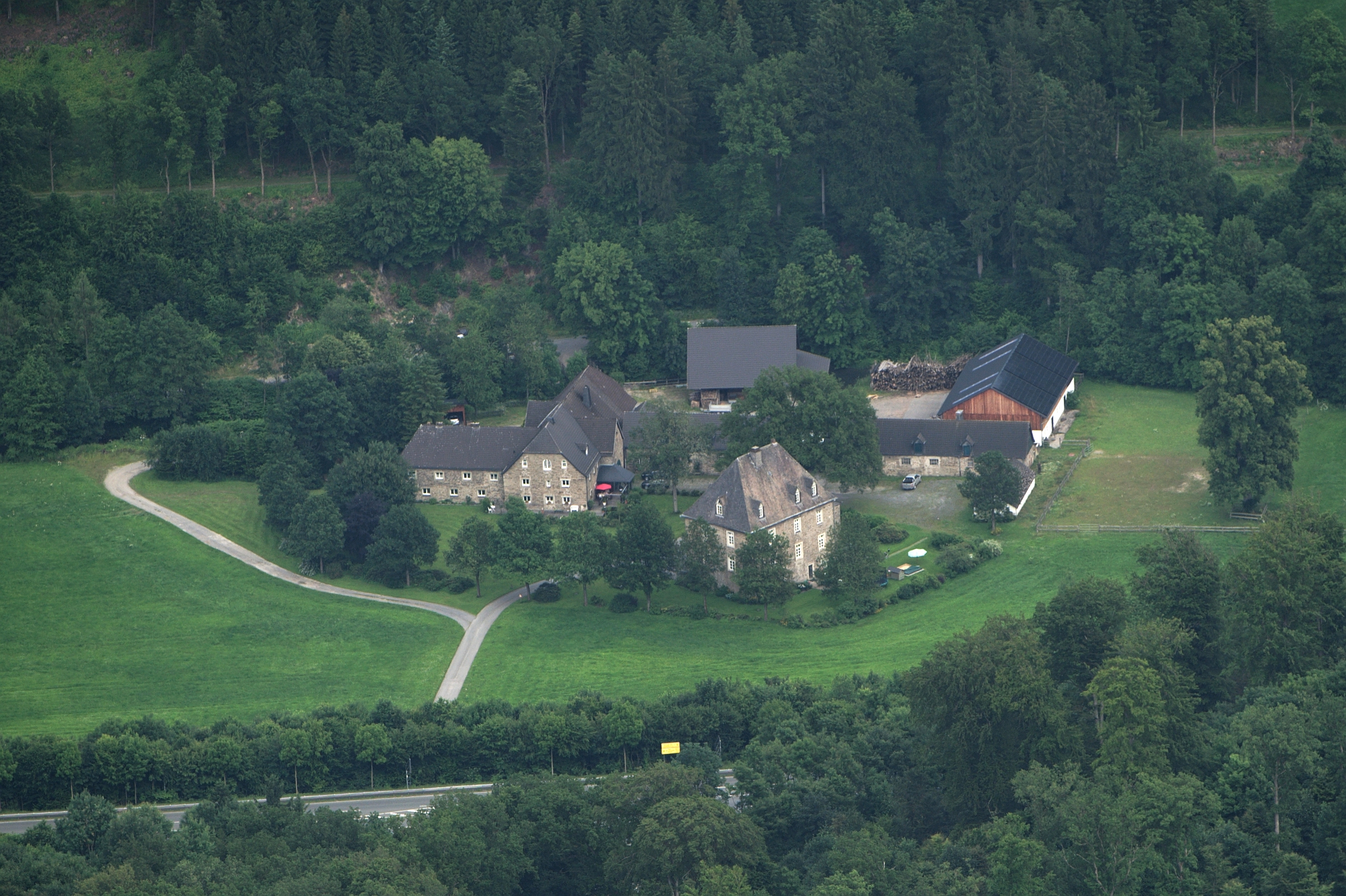 Fotoflug Sauerland-Ost, Eslohe, Haus Wenne The making of this document was supported by the Community-Budget of Wikimedia Germany.